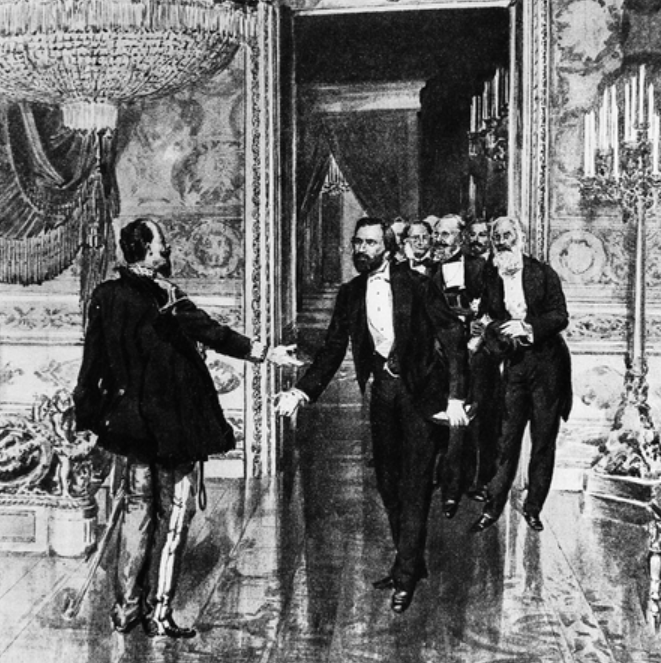 Turin-Verdi meets King Vittorio Emanuele, 15 Sept 1859